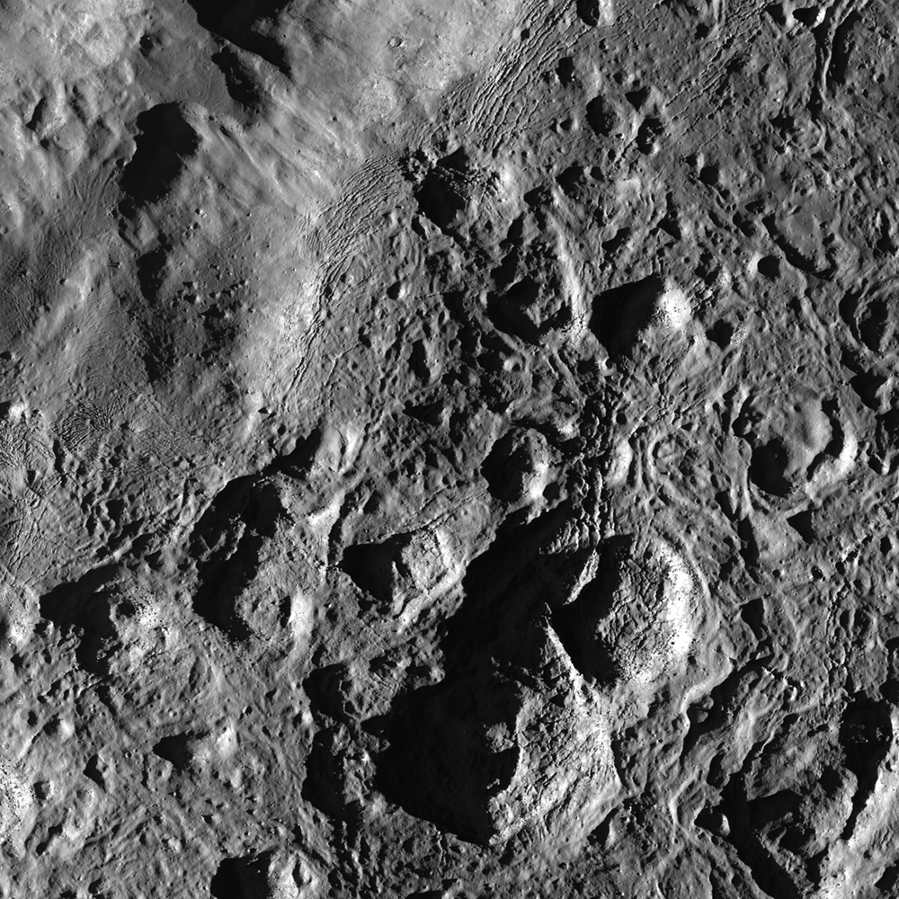 The beautiful, jagged complex patterns seen on the floor of Jackson crater were formed when an asteroid slammed into the Moon at ~20 km/s (44,740 mph).